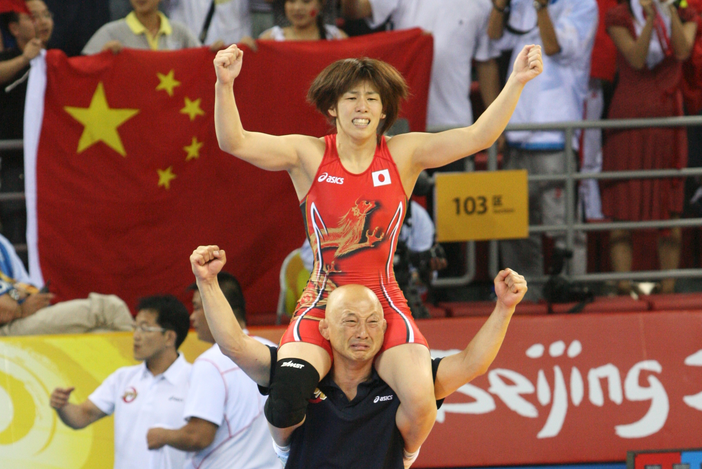 Saori Yoshida cheers after winning 55kg olympic female wrestling final in beijing 2008